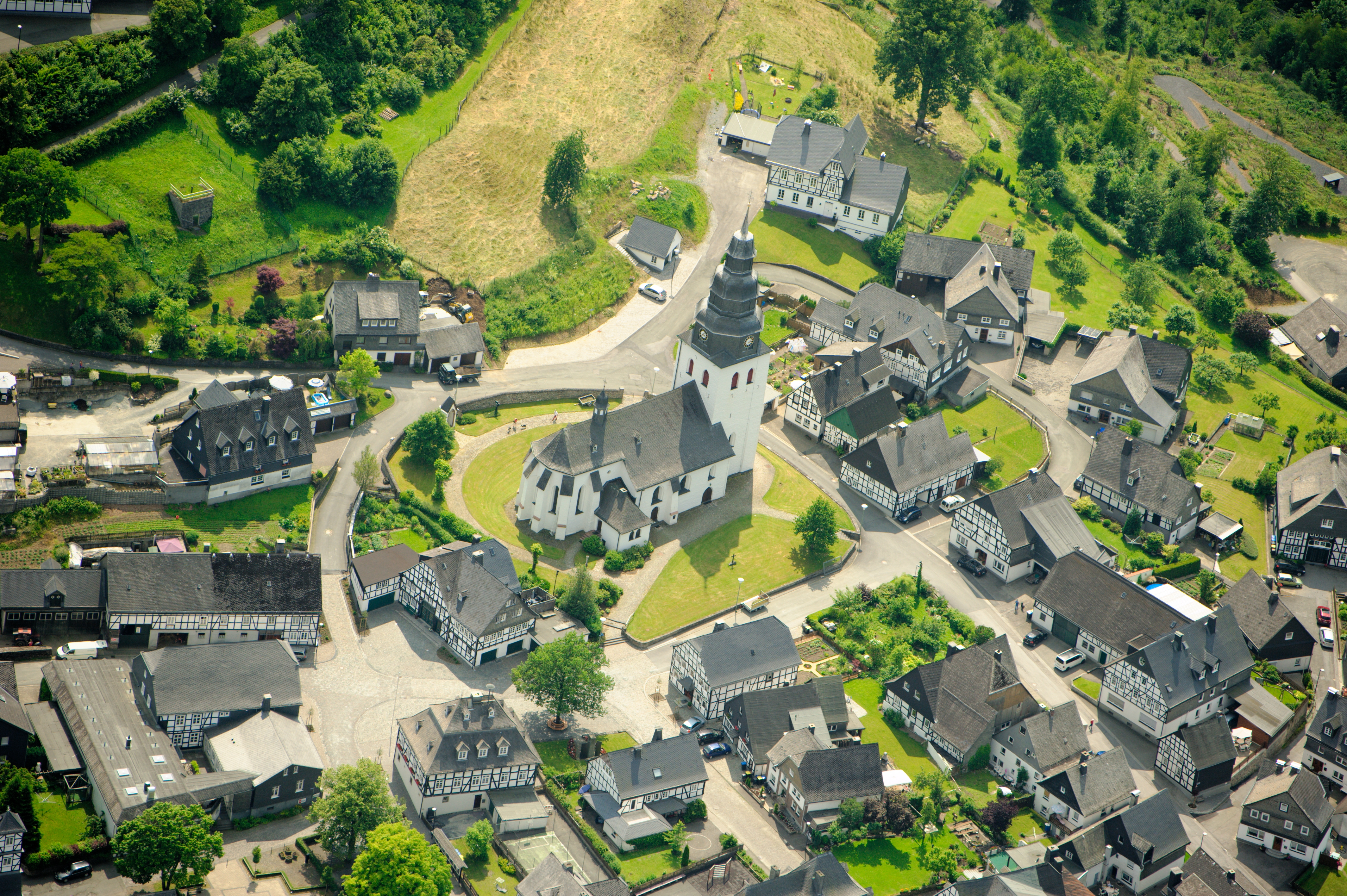 Fotoflug Sauerland-Ost – Meschede-Eversberg mit St. Johannes Evangelist The making of this document was supported by the Community-Budget of Wikimedia Germany.